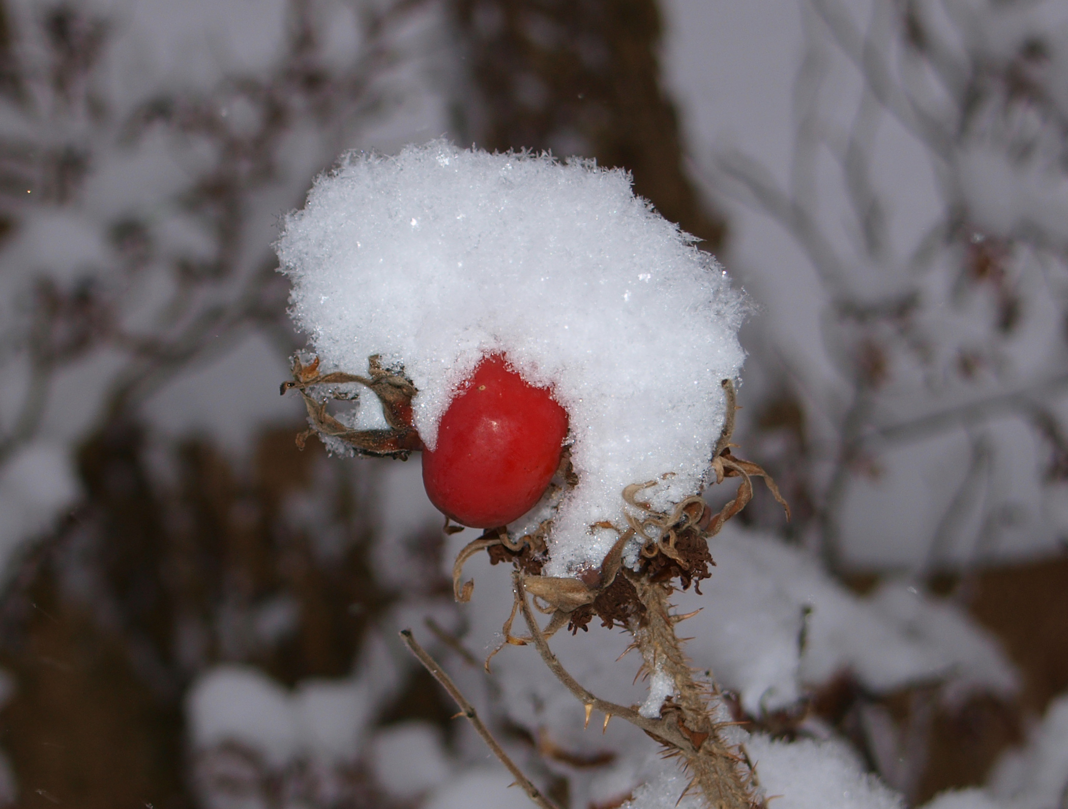 Rosehip with a snow cover